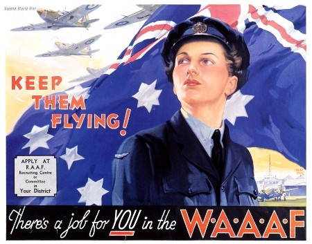 Keep them flying! This is a recruiting poster for the WAAAF, with an image of a uniformed WAAAF in the centre. The poster has the slogan 'Keep them flying! There's a job for you in the WAAAF' printed in red. In a grey box on the lower left, 'Apply at RAAF Recruiting Centre or Committee in Your District', is printed in black ink. There are four Spitfires in the sky upper left, and one Hudson aircraft on the airstrip lower right. The Australian flag partly fills the background. For information about the model, Elvia Mulhare, see file number 03/0493. Born in Sydney in 1884, Jardine joined the Australian Star as an illustrator aged 26, in 1910 where he worked for the next 20 years. While working at the Sun, he achieved widespread recognition for his full page black and white illustrations. During the Second World War he was commissioned to produce posters for the Department of Defence.